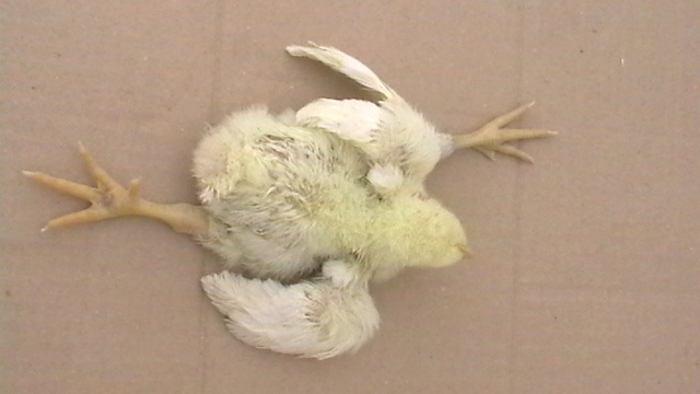 Signs of riboflavin deficiency in chicken (chicks 11-days old on a multivitamin deficient commercial diet from day 1) : sprawling out of the legs (advanced stage); these chicks do not recover after oral medication. Walon: Mancance di riboflavene (vitamene B2) a des poyons di 11 djoûs ki magnèt ene farene di martchand ki manke di sacwants vitamenes dispu l' prumî djoû: schåyaedje des pates; ces poyons la ni rwerixhèt nén après abuvraedje avou del vitamene B2.